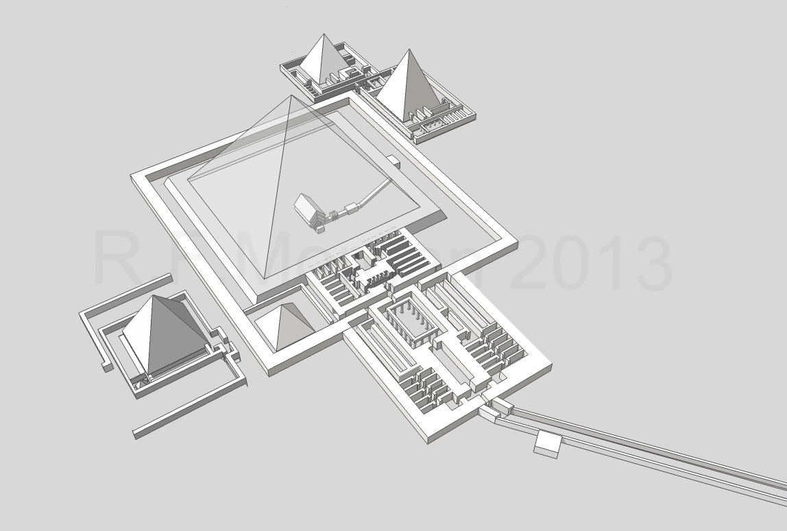 Close up of the pyramid complex of Pepi II